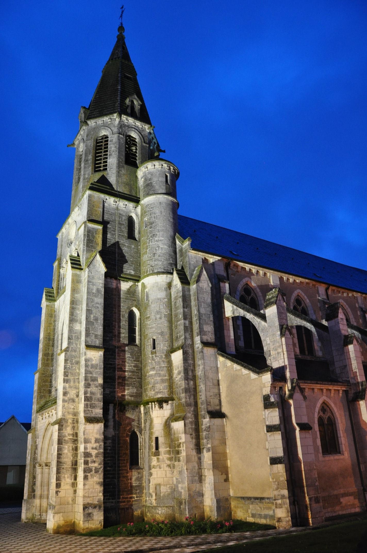 Church of St. Laurien (also: St. Laurian) in Vatan (Indre, France)